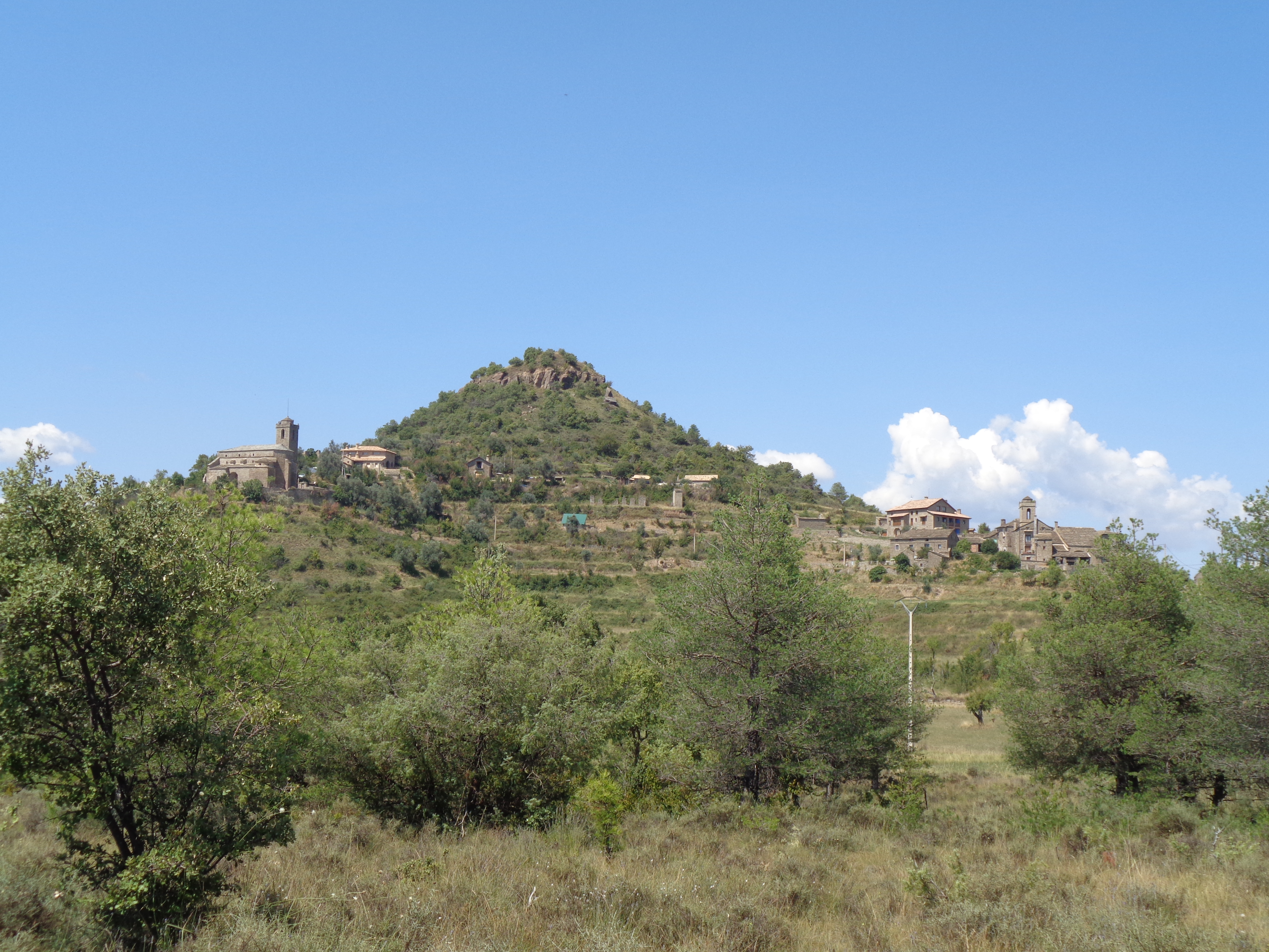 Santa Maria de Buil, Prov. Huesca, Aragon, Spain